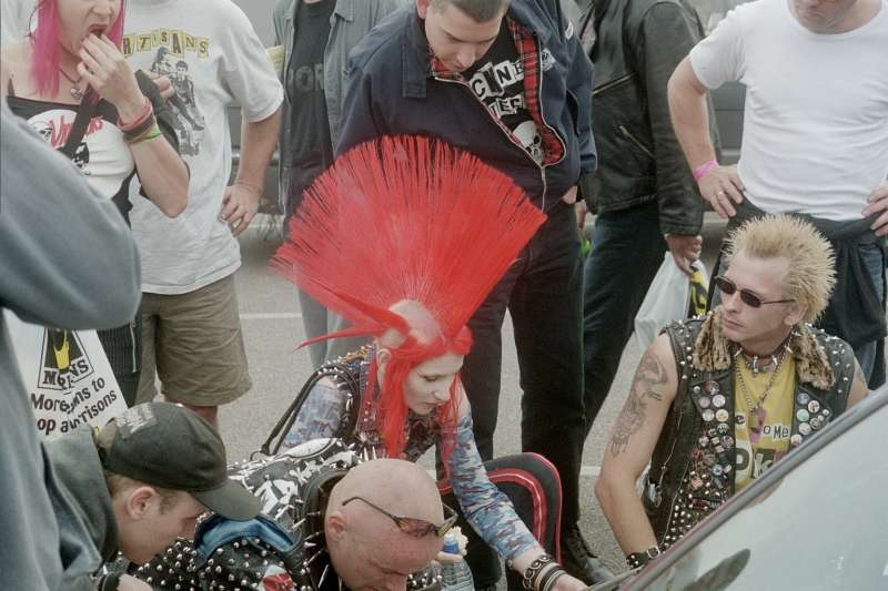 Punks HITS Festival Morecambe 2003